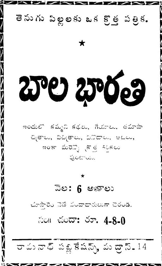 Ad of Balabharathi magazine